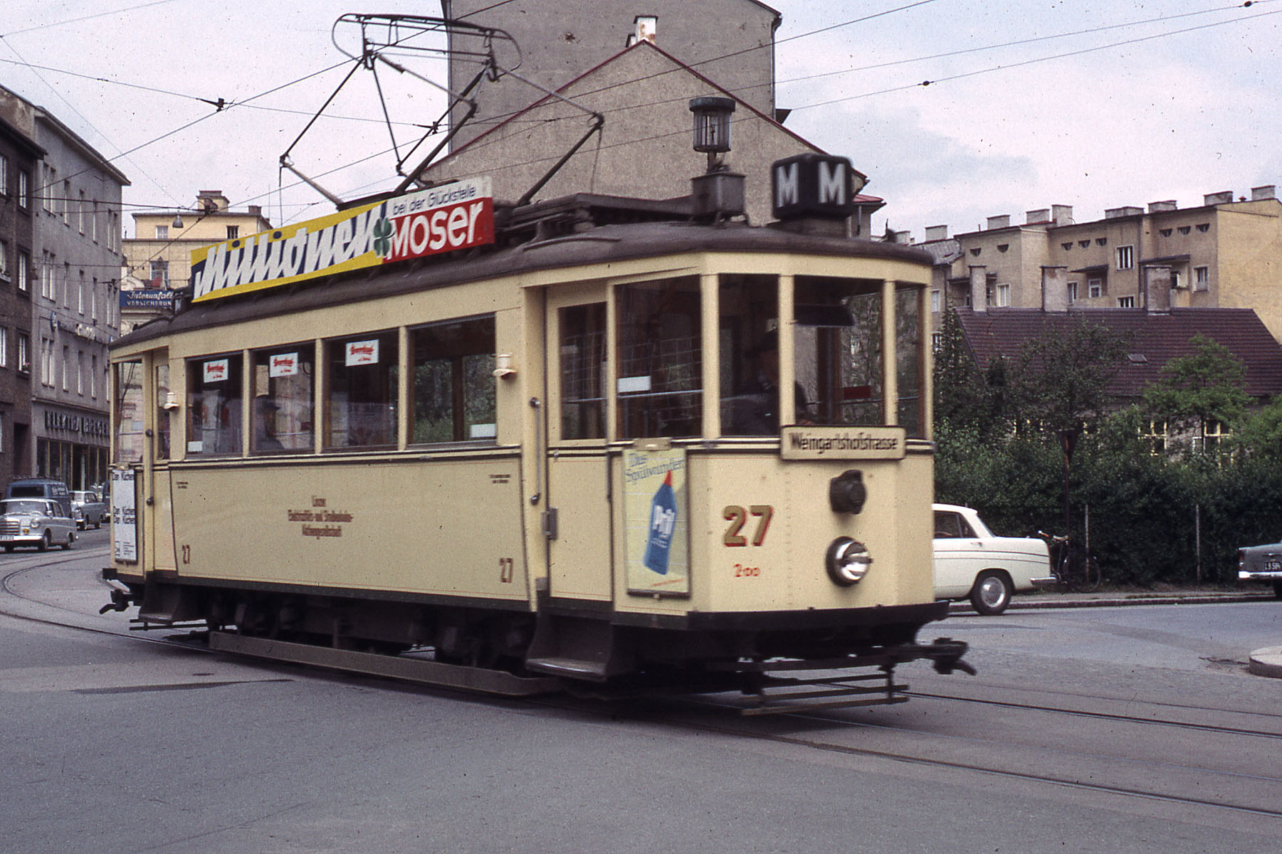 Linz tramways, car 27 on line M